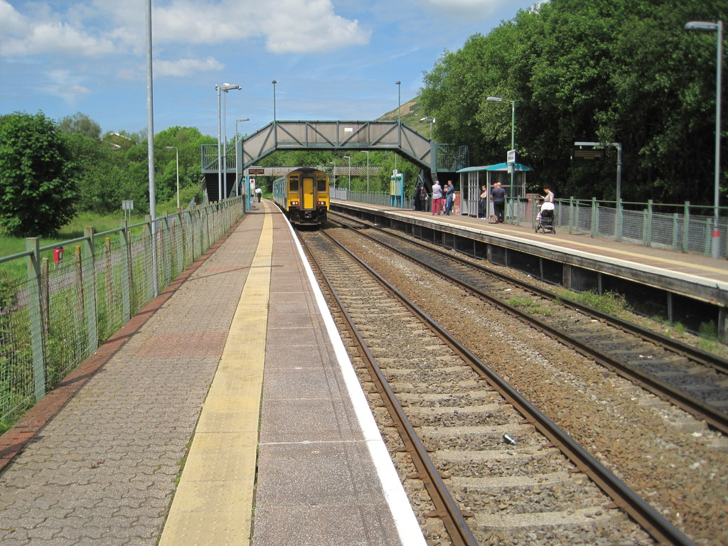 Ystrad Rhondda railway station, Rhondda Cynon Taf. Opened in 1986 by British Rail on the line from Cardiff to Treherbert. View north west towards Ton Pentre (the original Ystrad Rhondda station which changed its name at the same time as this station opened) and Treherbert.